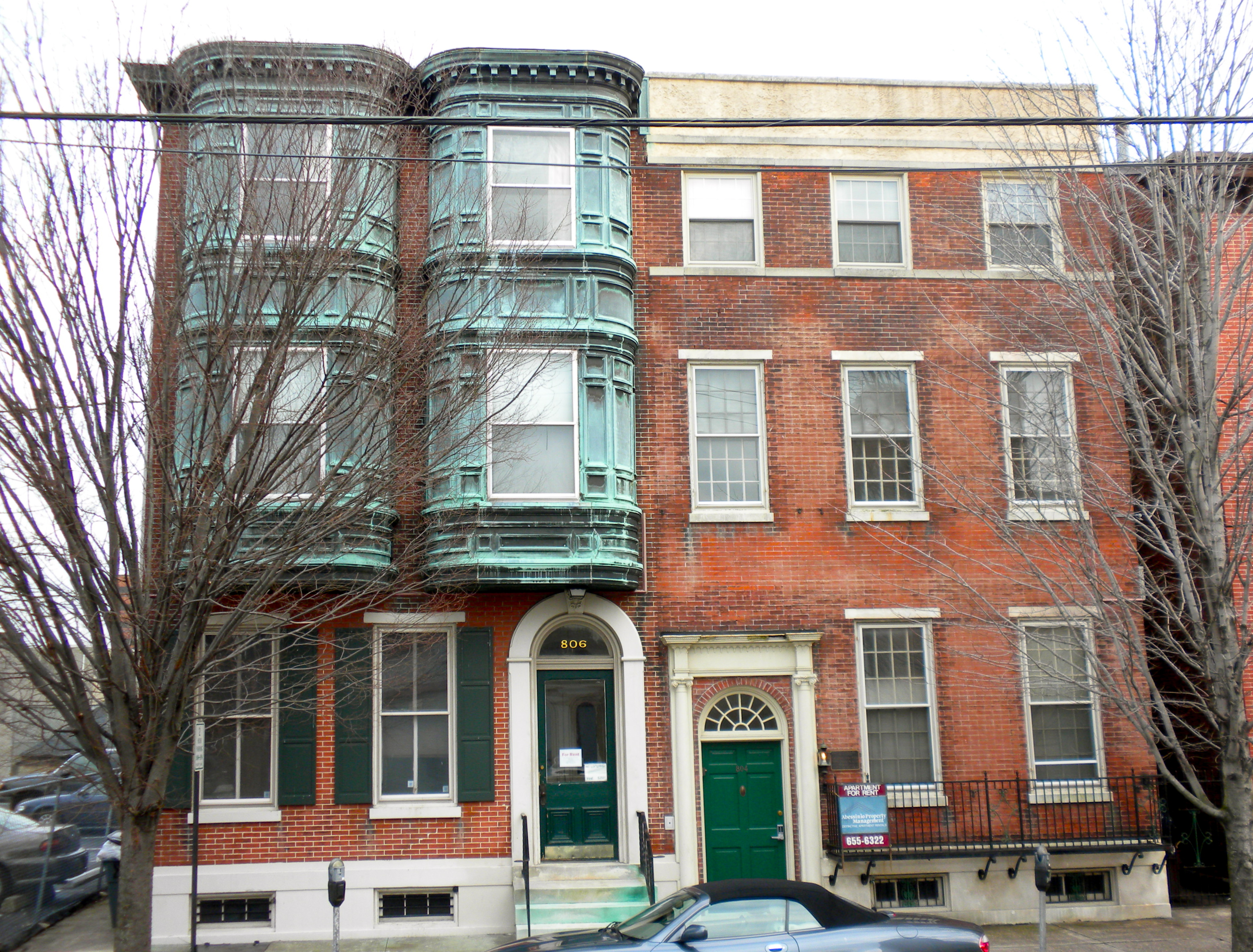 806 West Street, Wilmington, Delaware. Striking building. At the north end of the expanded boundaries of Wilmington's Quaker Hill Historic District.